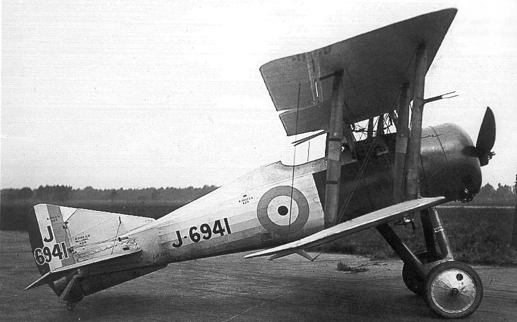 Gloster Nightjar J6941, a production aircraft though here without armament, May 1923.